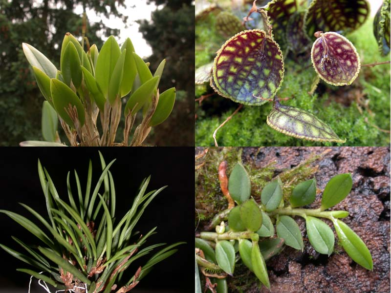 Different leaf shapes of orchids